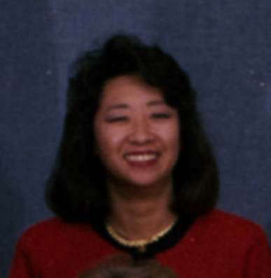 Seattle City Council member Martha Choe, 1992.